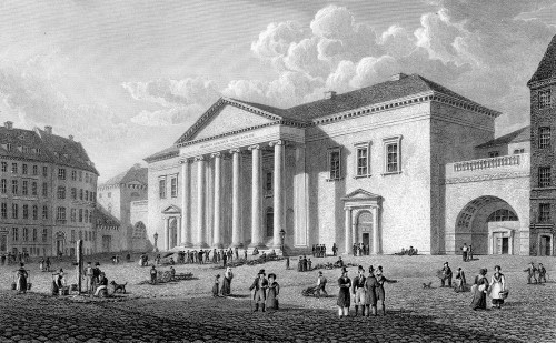 Københavns Domhus in Copenhagen, Denmark, Denmark